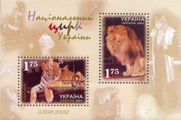 Stamps of Ukraine, 2002